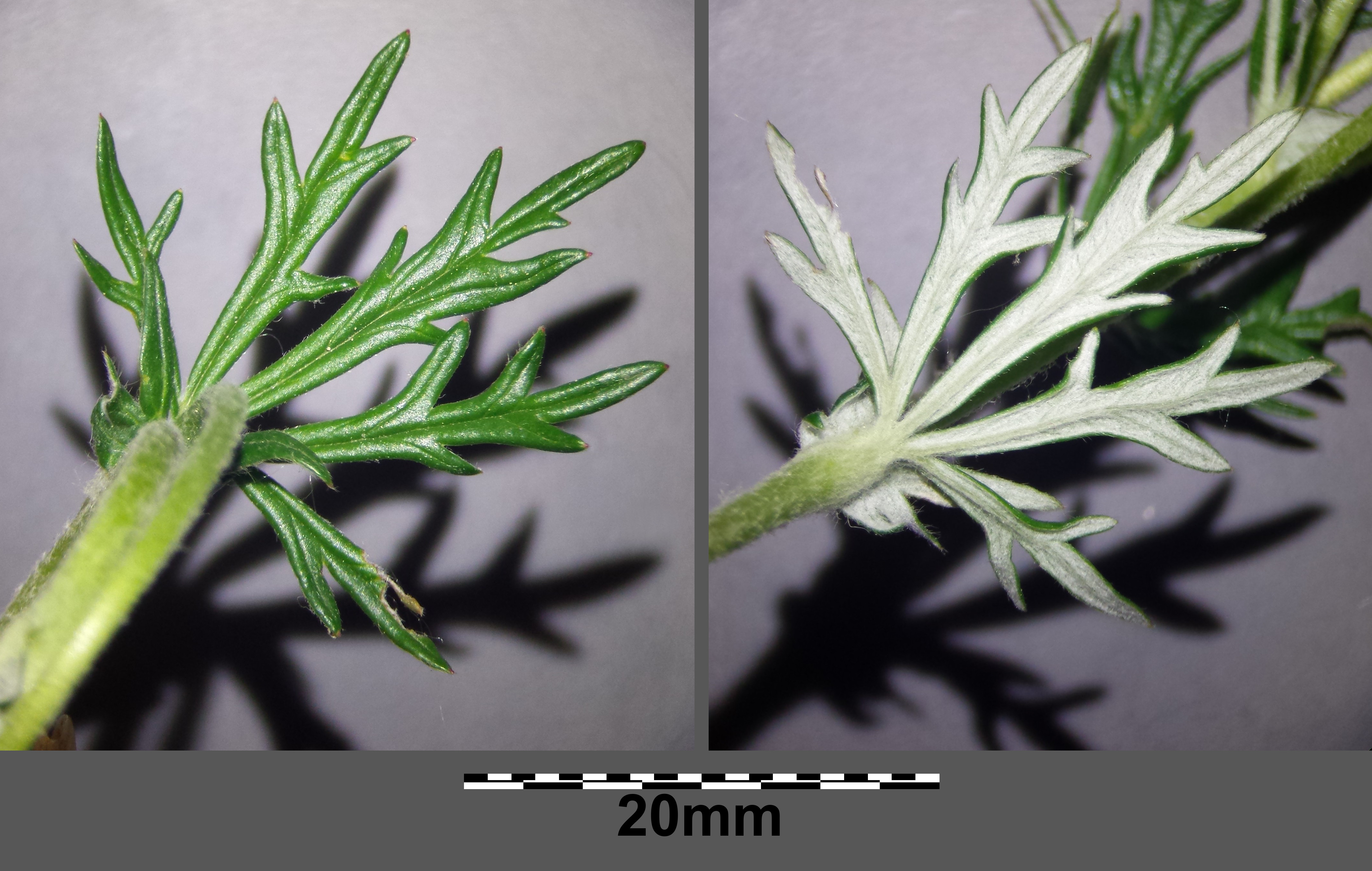 Leaf (top and bottom side) Taxonym: Potentilla argentea ss Fischer et al. EfÖLS 2008 ISBN 978-3-85474-187-9 Location: Siebeckstraße, Vienna-Donaustadt - ca. 160 m a.s.l. Habitat: ruderal meadows